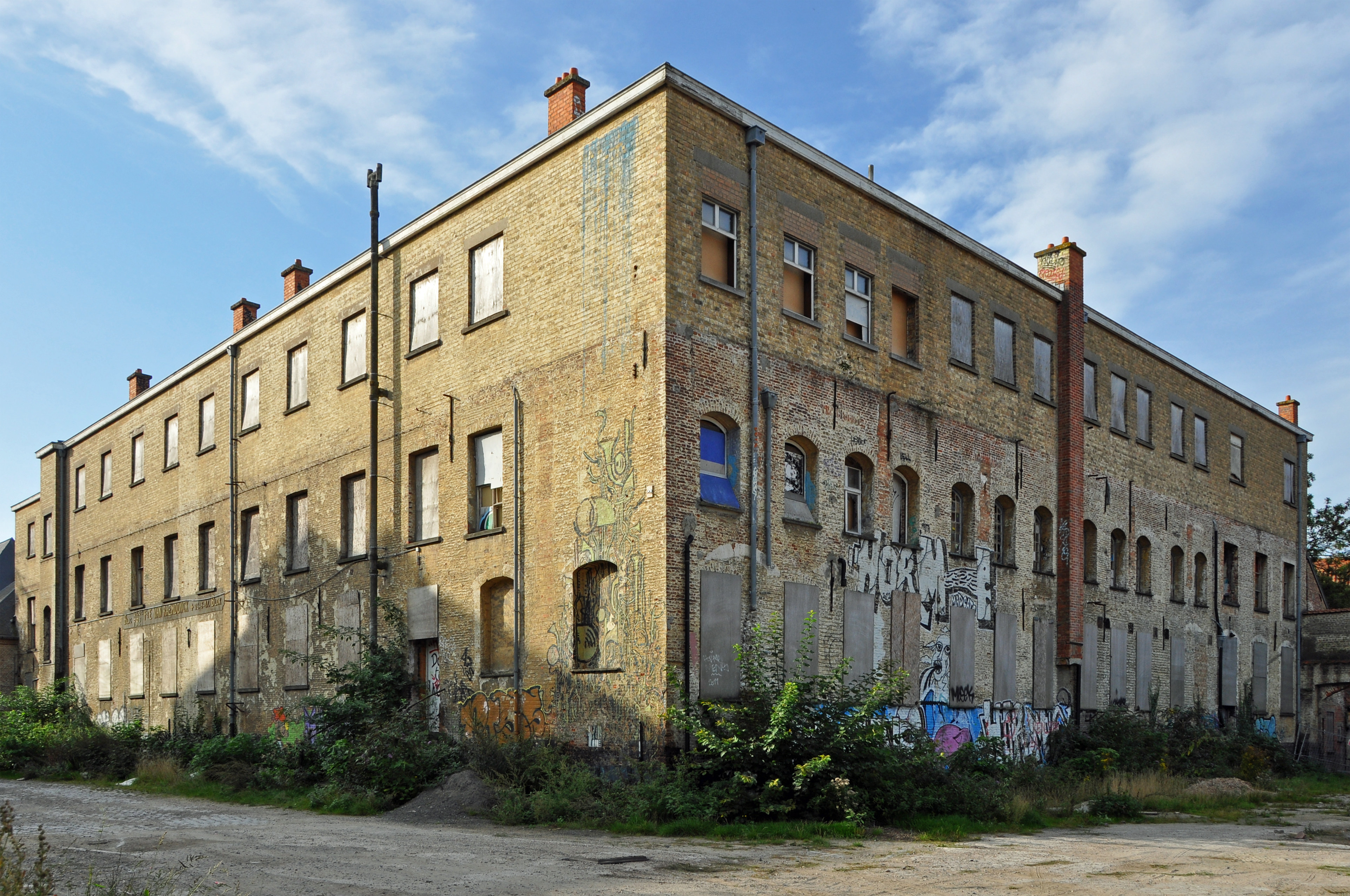 Bruges (Belgium), Hugo Losschaertstraat: former barracks "Majoor Weyler", previously convent of Carmelite nuns